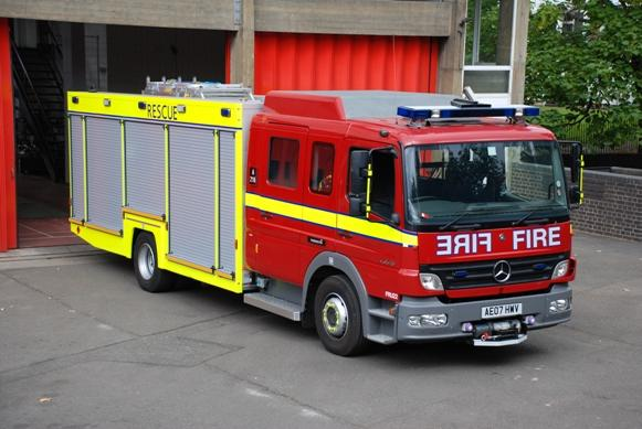 A London Fire Brigade rescue unit, stationed at Paddington, with "FIRE" in mirror writing ("ERIF").